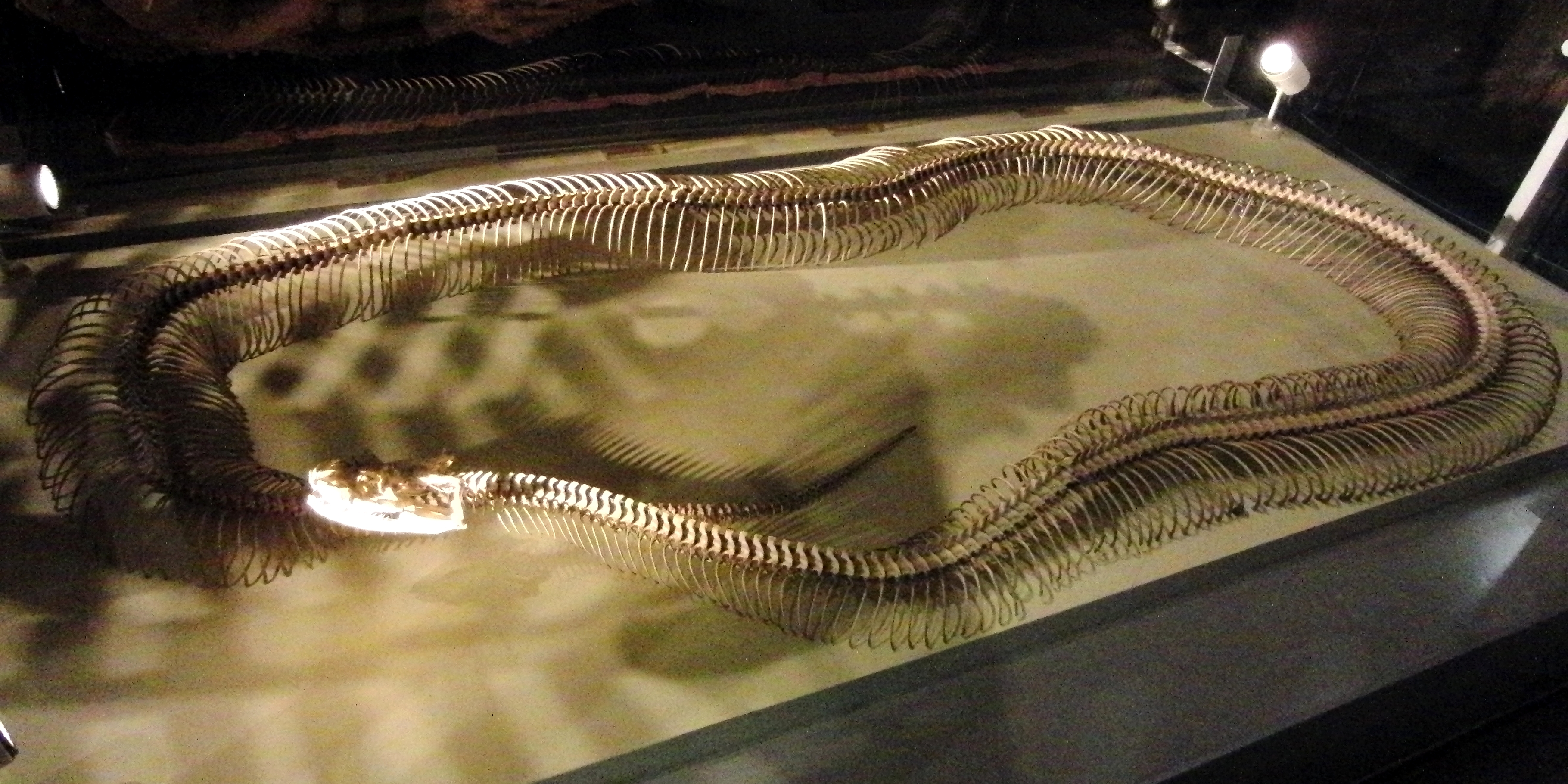 Skelton of Eunectes murinus. Exhibit in the National Museum of Nature and Science, Tokyo, Japan.